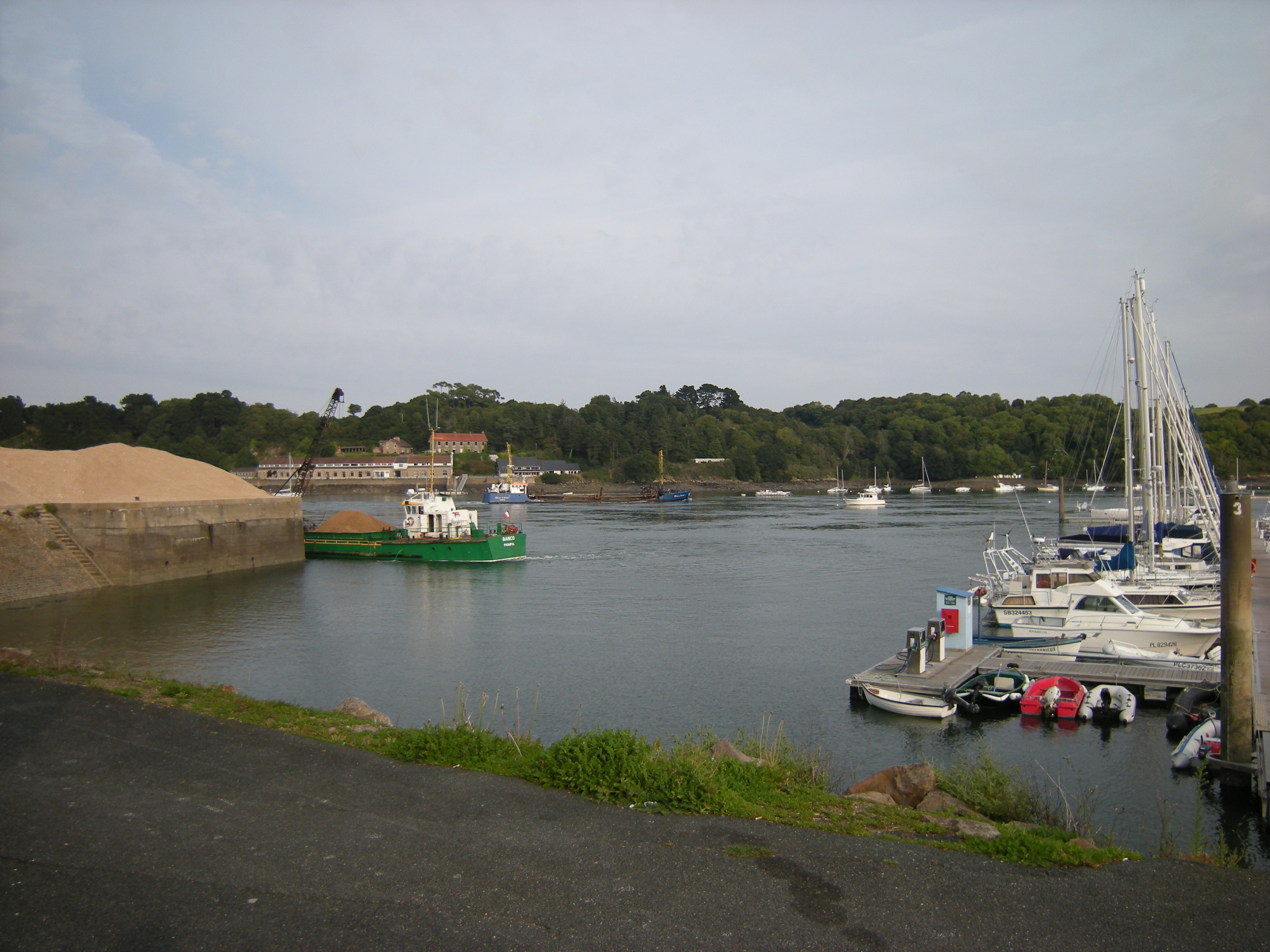 Sand barges on Trieux river, harbor of Lézardrieux, Côtes-d'Armor, Britanny, France. Half-tide, flow.